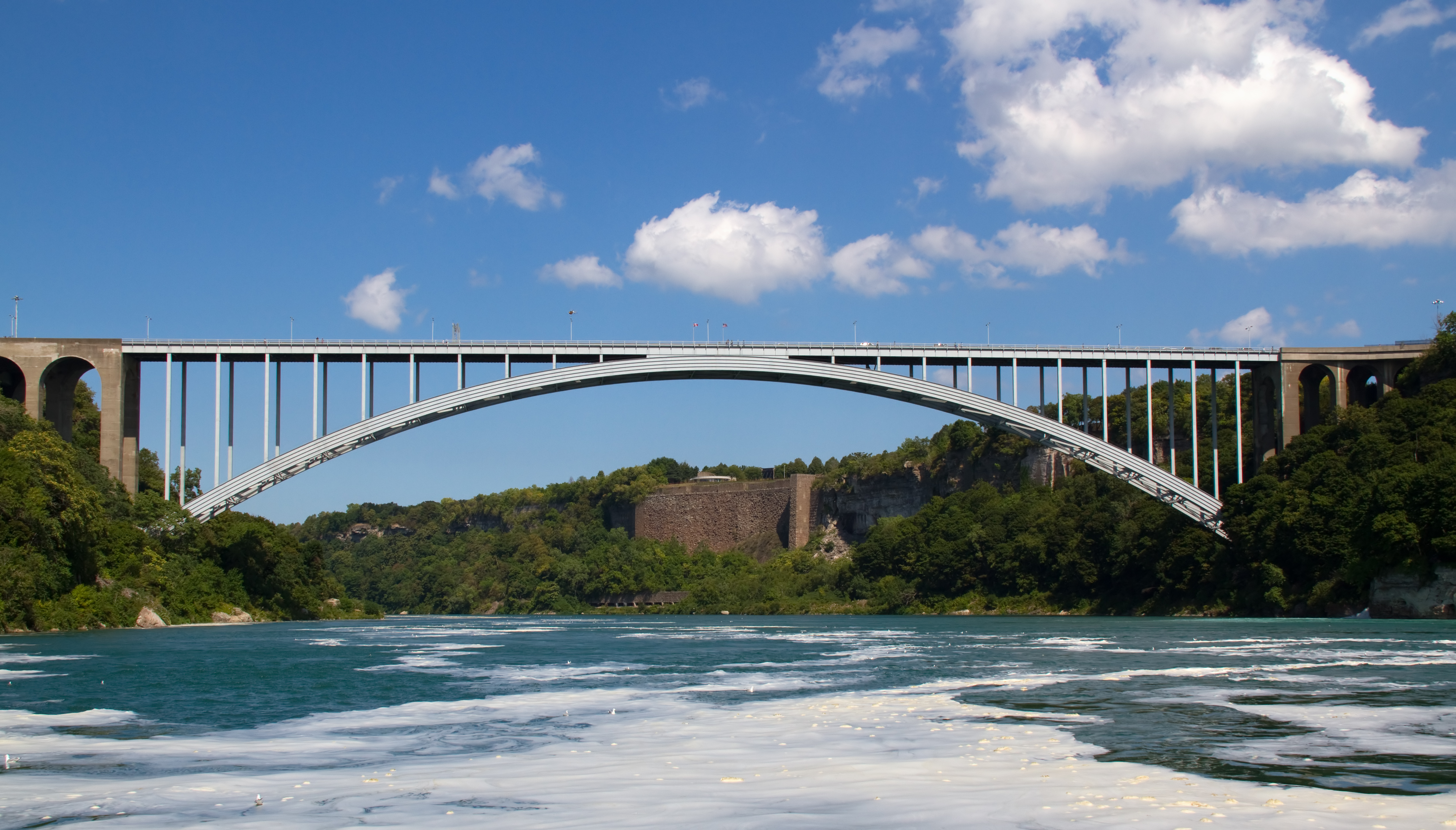 Rainbow Bridge Niagara Falls